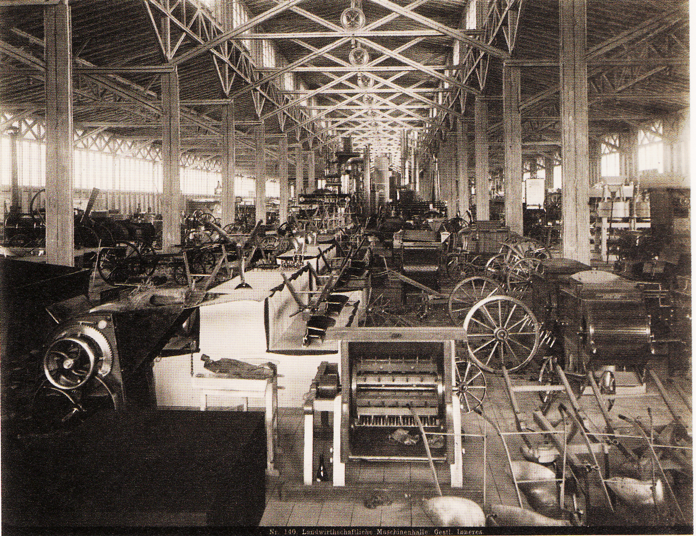 exhibition with machines for agriculture, Expo 1873